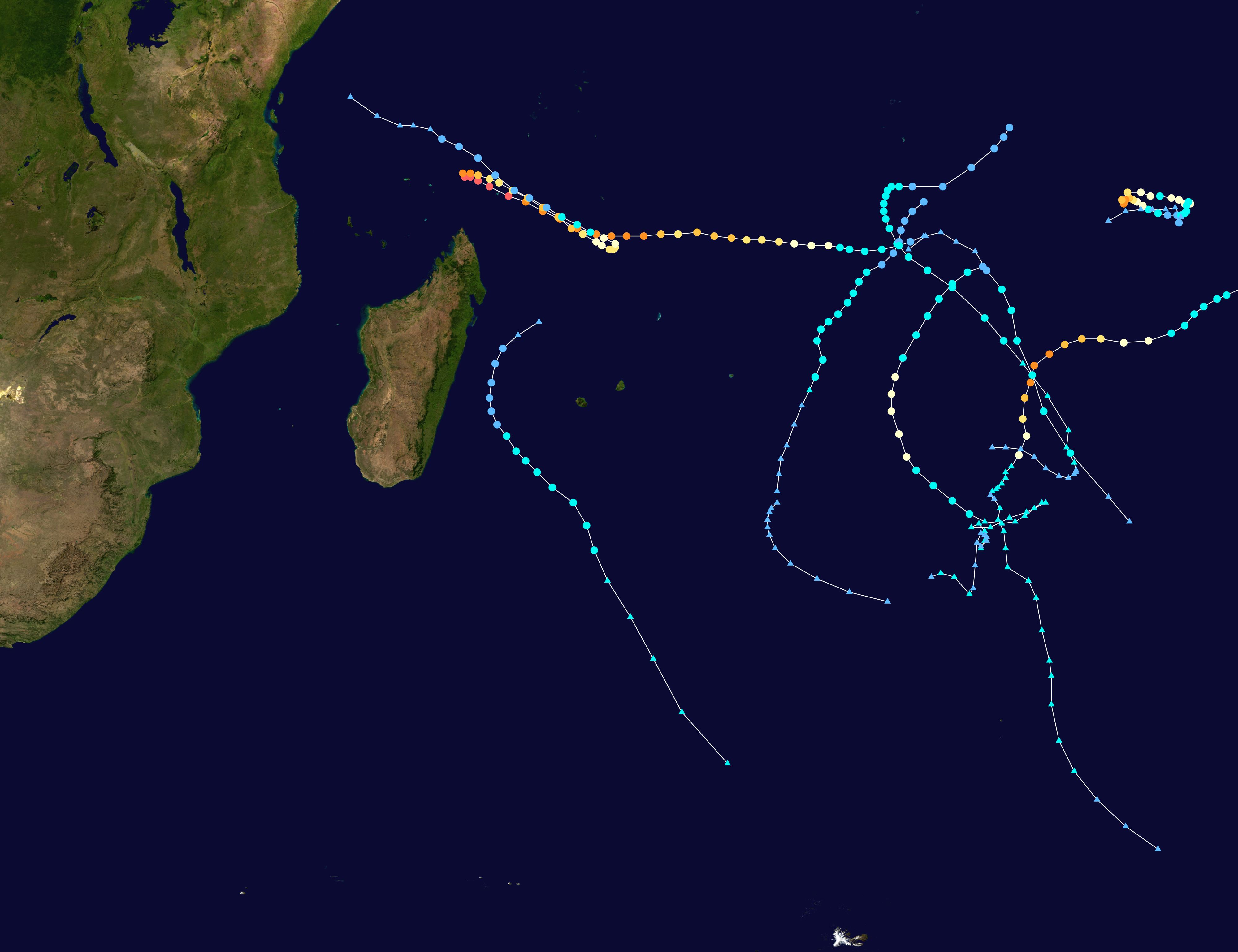 This map shows the tracks of all tropical cyclones in the 2015-16 South-West Indian Ocean cyclone season. The points show the location of each storm at 6-hour intervals. The colour represents the storm's maximum sustained wind speeds as classified in the Saffir-Simpson Hurricane Scale (see below), and the shape of the data points represent the type of the storm. Saffir–Simpson scale Tropical depression≤38 mph≤62 km/h Category 3111–129 mph178–208 km/h Tropical storm39–73 mph63–118 km/h Category 4130–156 mph209–251 km/h Category 174–95 mph119–153 km/h Category 5≥157 mph≥252 km/h Category 296–110 mph154–177 km/h Unknown Storm type Tropical cyclone Subtropical cyclone Extratropical cyclone / Remnant low / Tropical disturbance / Monsoon depression